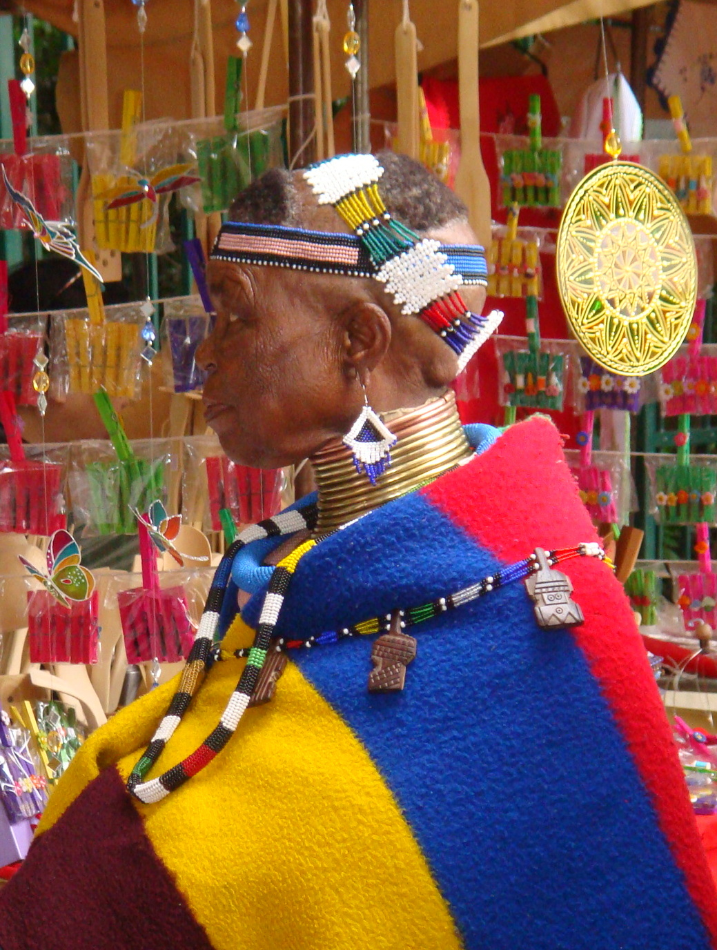 Artist Esther Mahlangu